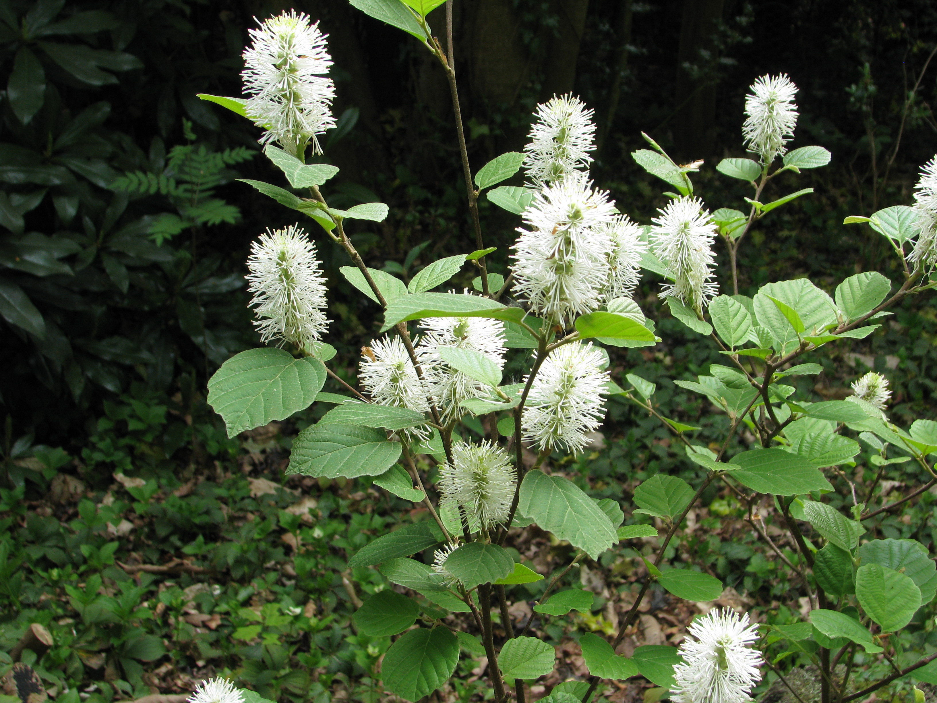 F.major (aka monticola) flowers with the new foliage, whereas the other well-known species, F.gardenii, flowers on bare stems.